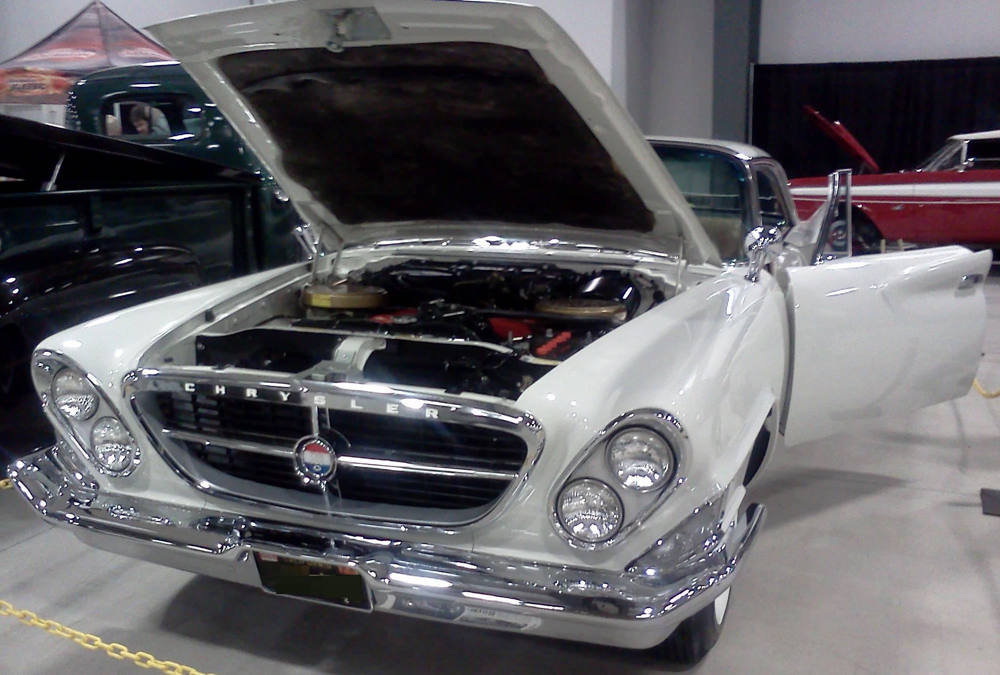 1961 Chrysler 300G photographed in Ottawa, Ontario, Canada at the 2013 Ottawa Classic & Custom Car Show.